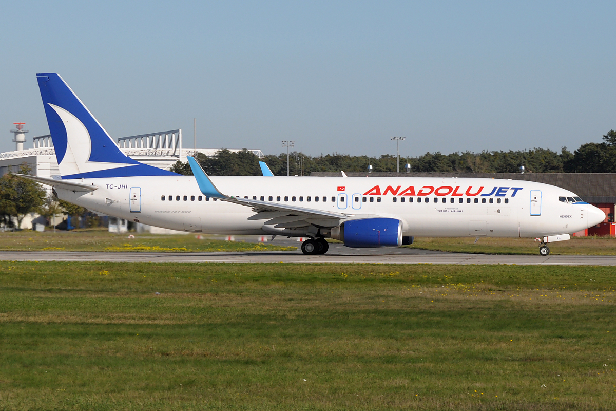 AnadoluJet Boeing 737-800 in Frankfurt